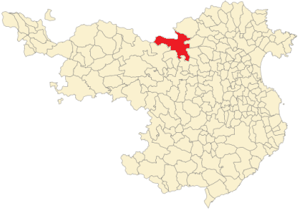 Albanyá